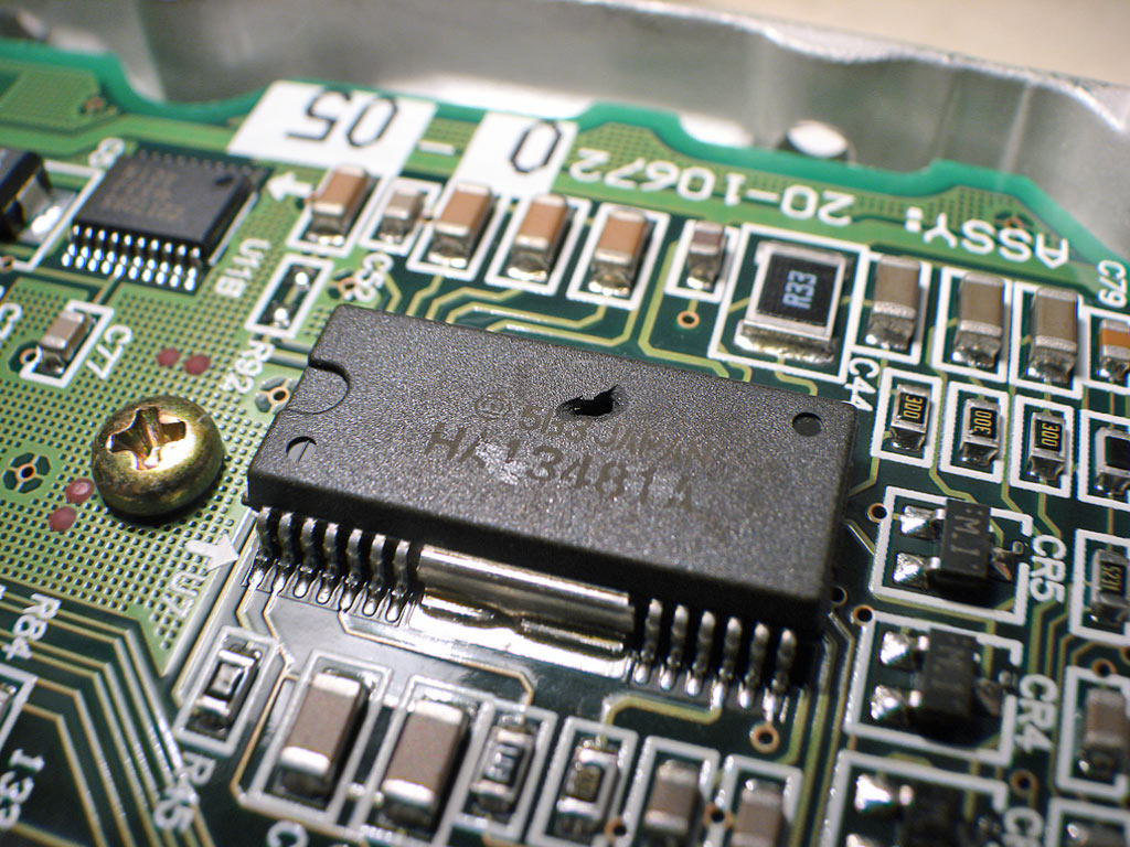 A computer chip rendered useless after the magic smoke escaped. Photo taken by myself.